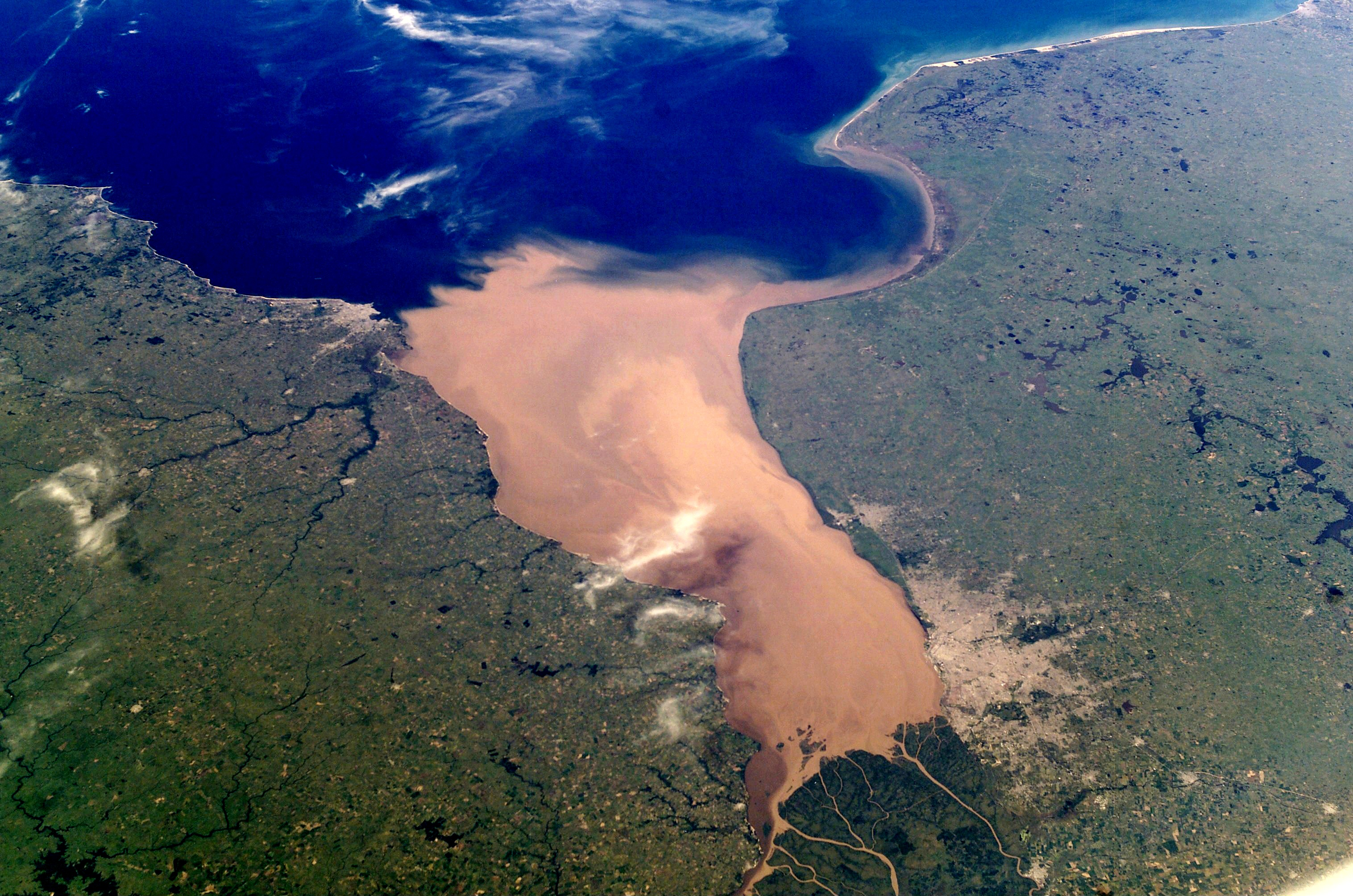 NASA astronaut photograph of the Río de la Plata estuary looking west-east, the picture does not show a north and south view. Actually the right is the south and the bottom of the picture is the west. Note Greater Buenos Aires on the right side of the picture, and Montevideo on the left side (near the mouth of the Santa Lucía. To the east of Greater Buenos Aires, a smaller conurbation is visible, including La Plata (a few kilometers inland) and the Berisso-Ensenada area (near the river). Water on the river is brown because of sediments carried from the Paraná and Uruguay rivers. The color turns blue when approaching the South Atlantic Ocean. The exact location of the color change (which also implies a change from clear to salt water) depends on winds and currents.